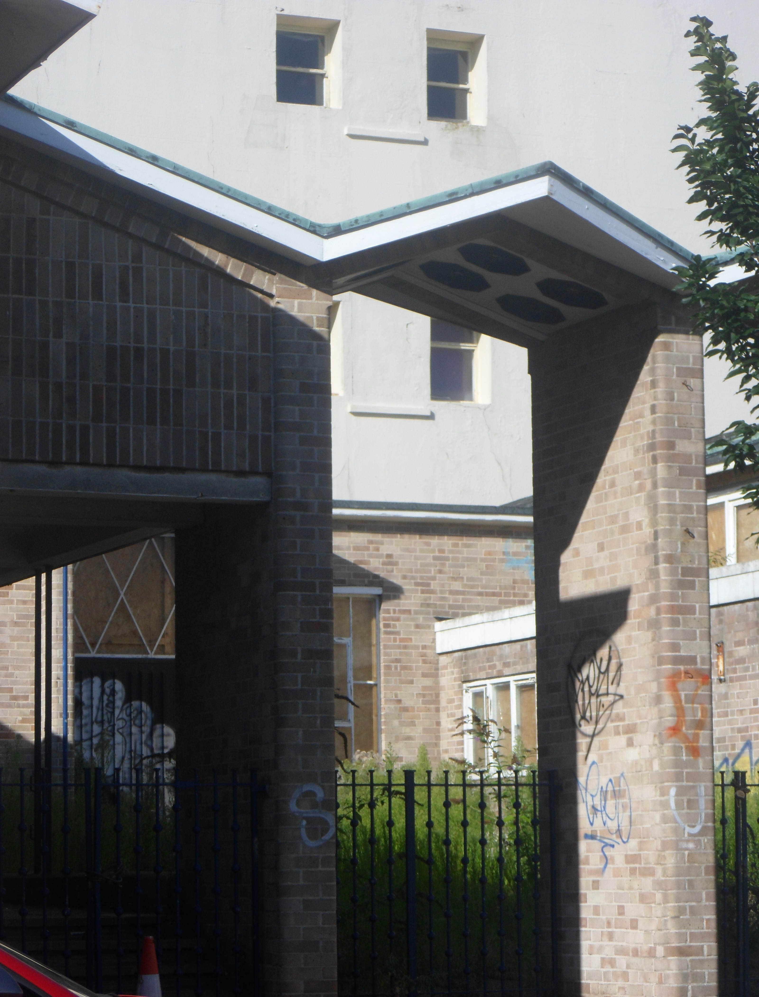 Montpelier Place Baptist Church, Montpelier Place, Hove, City of Brighton and Hove, England.